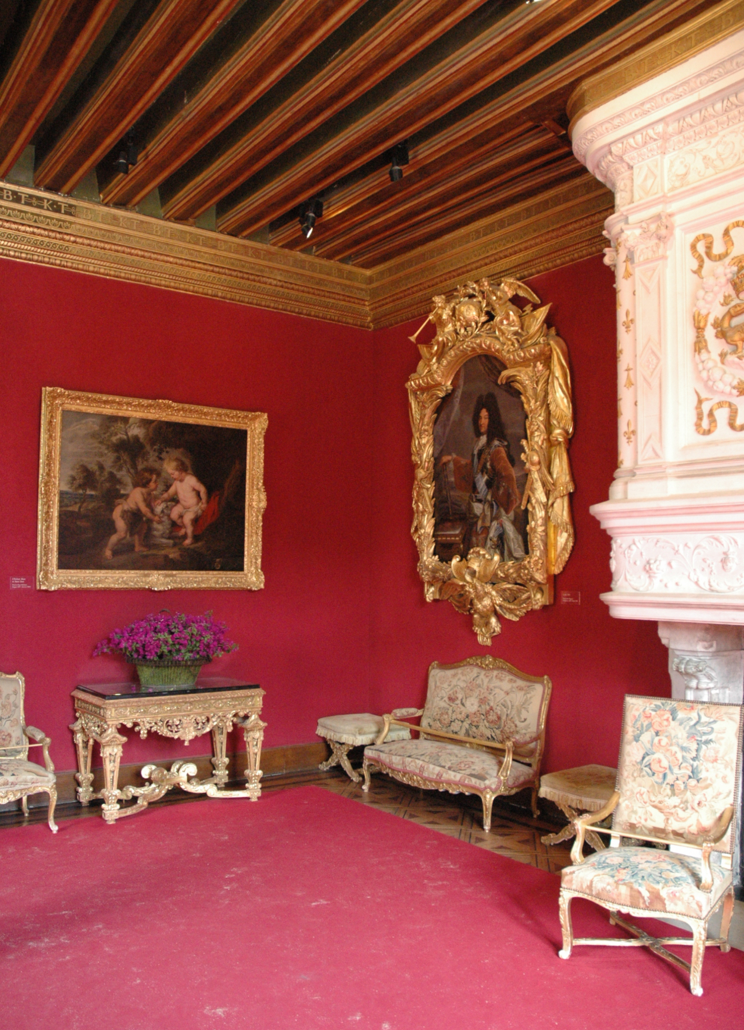 Salon Louis XIV in the château de Chenonceau